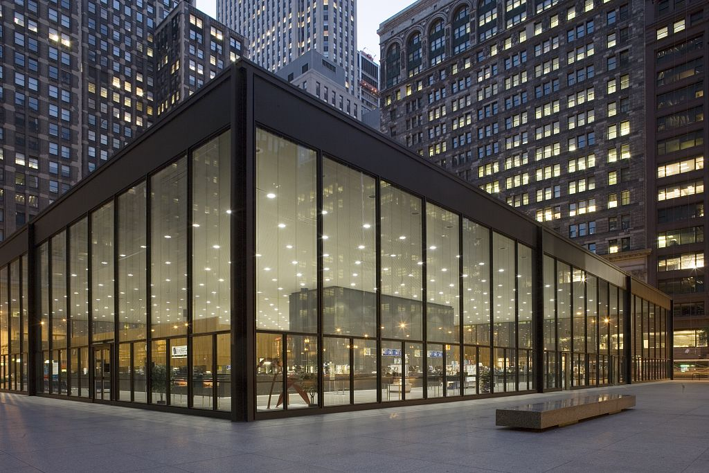 Post office in Chicago Loop at the Everett Dirksen Courthouse. Building designed by Ludwig Mies van der Rohe. Photograph by Carol M. Highsmith, who has donated her works to the public domain, via the Library of Congress (where she has a special collection).